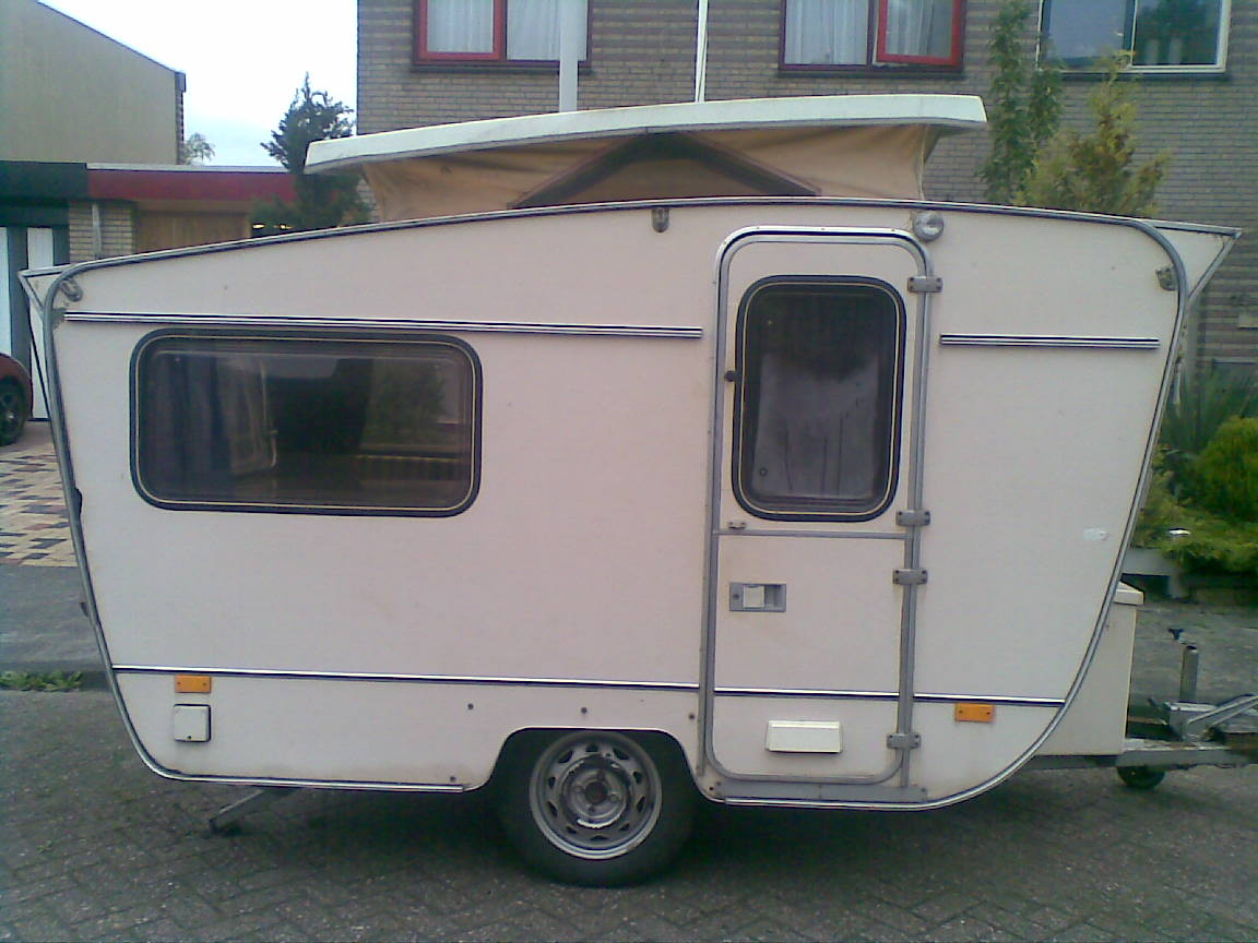 caravan manufactured by Otten 1974